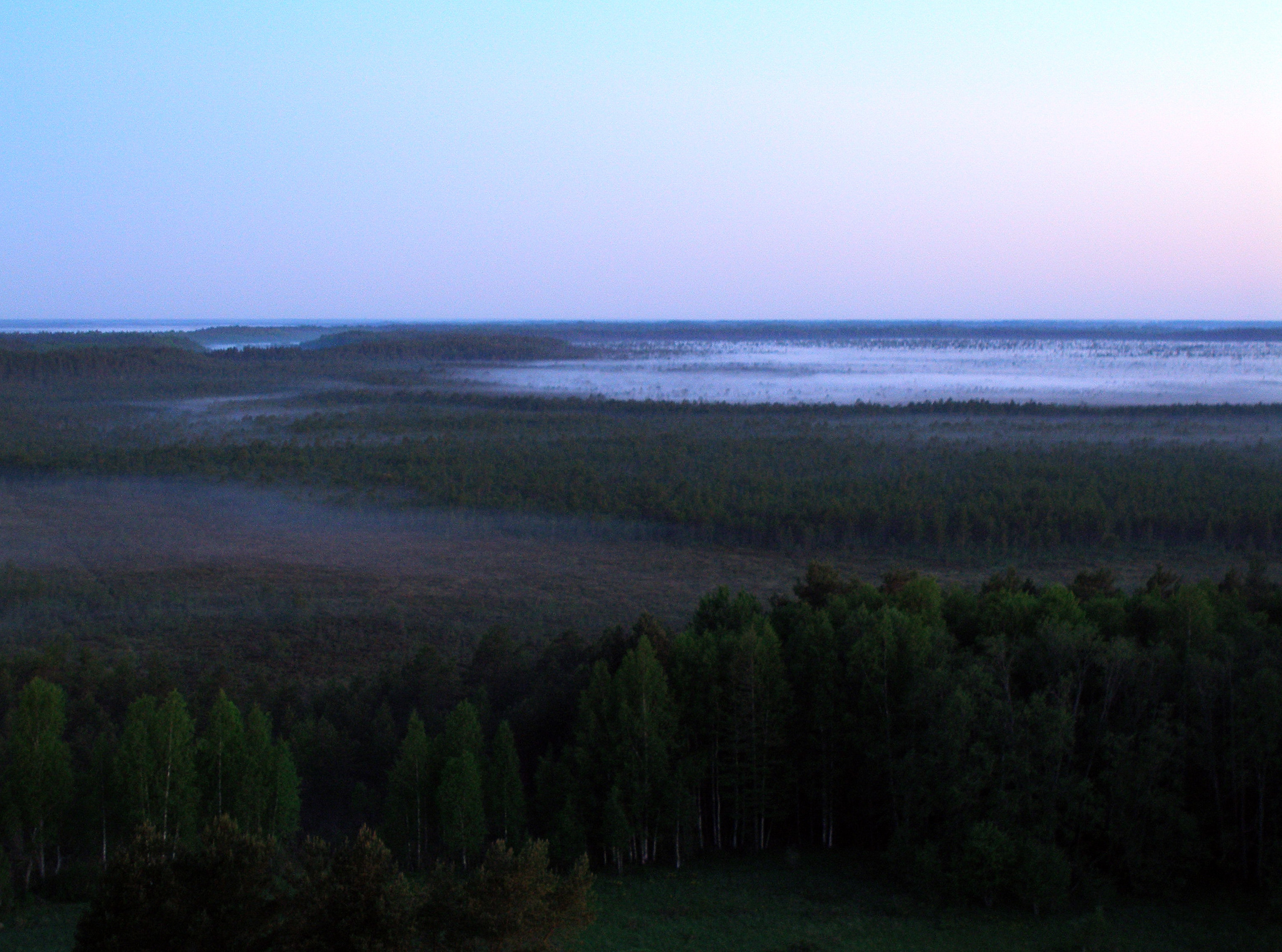 Madise bog, Alam-Pedja Nature Reserve, Estonia.